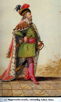 Mozes Székely. Hungarian nobleman. Prince of Transylvania.